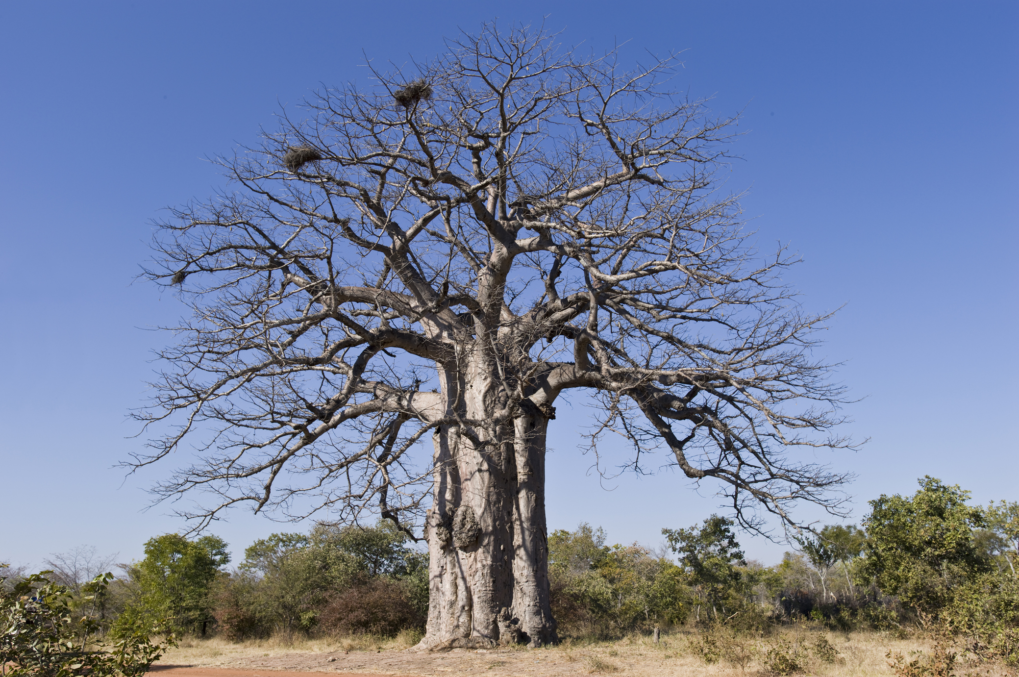 This amazing and unusual looking tree, The Imbondeiro Tree, is the national tree of Angola. The Imbondeiro Tree, meaning "Giant Tree" can be found in other hot, dry, sub saharan African countries as well, where it is referred to as a Baobab or Adansonia Digitata tree. It is also known as the "upside-down tree" because the branches resemble tree roots, like it was planted upside down! It is said that they can live for over 1000 years! The massive trunk can hold up to 120,000 liters of water to endure a harsh drought.